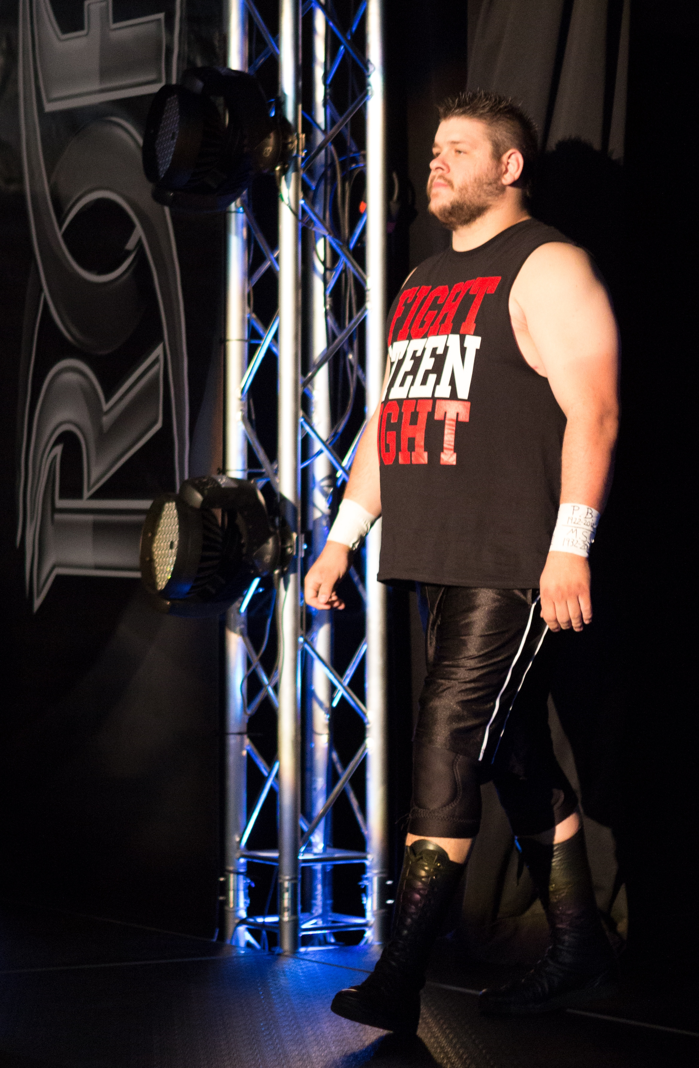 Kevin Steen coming to ringside at the Ring of Honor tapings held at the Ted Reeve Arena in Toronto